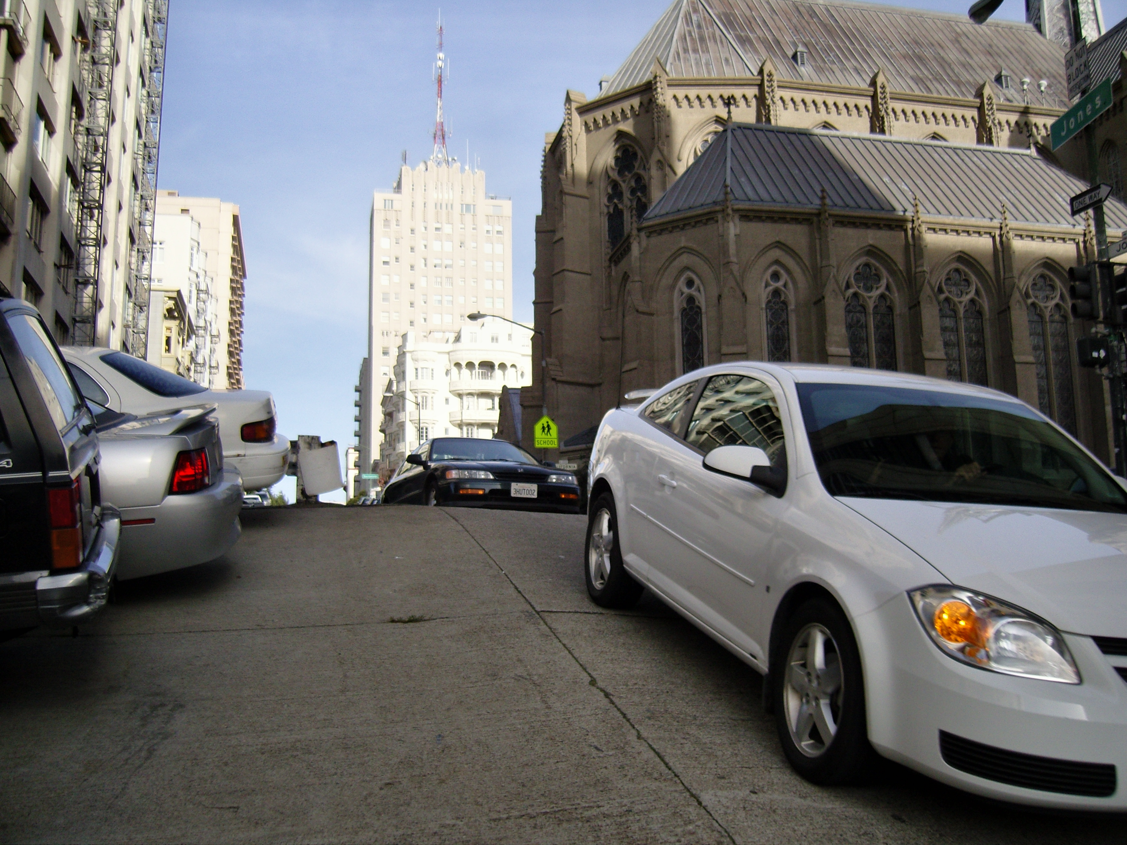 Nob Hill, San Francisco, California.